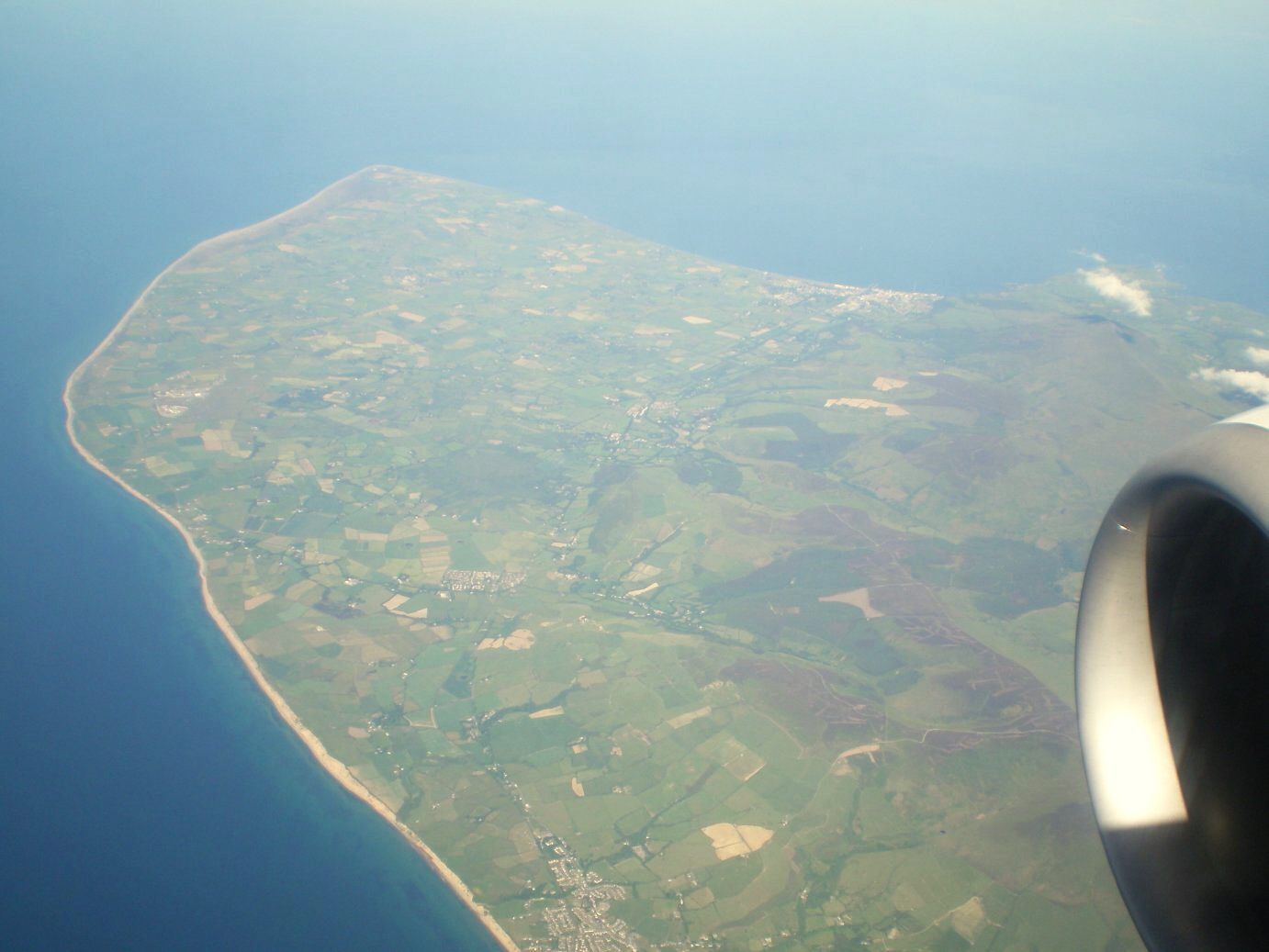 Northern part of the Isle of Man - with Peel, Kirk Michael and Ramsey Gaelg: Ellan Vannin twoaie